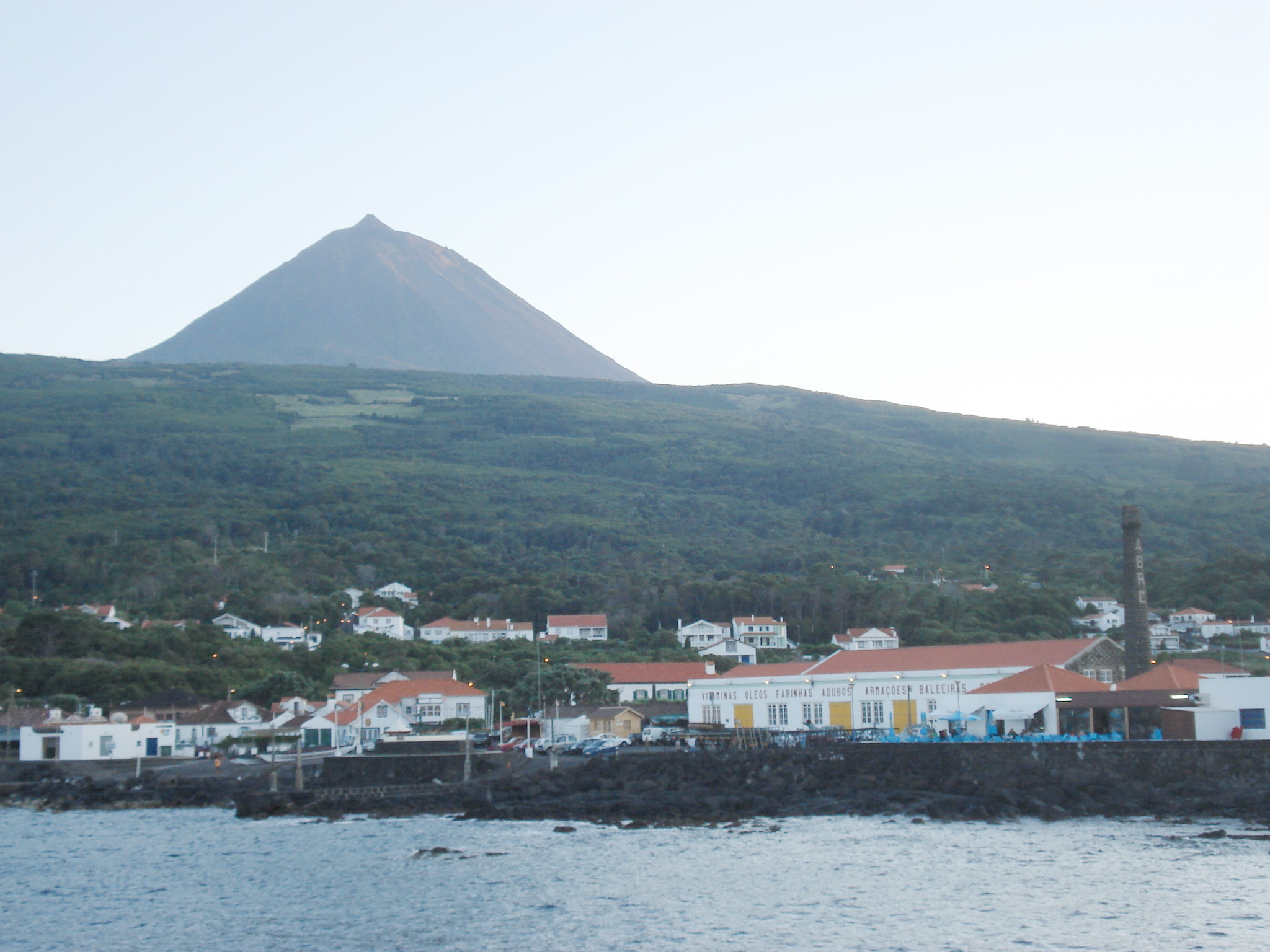 Town of São Roque do Pico, as seen from the coast, with the summit of Pico in the background, Pico Island, Azores